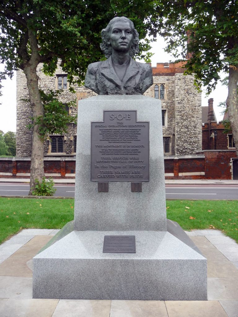 This memorial is on the embankment. Lambeth Palace can be seen in the background.